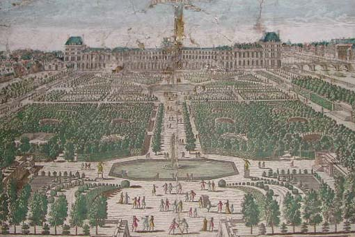 Tuileries Palace, late 17th century French engraving.